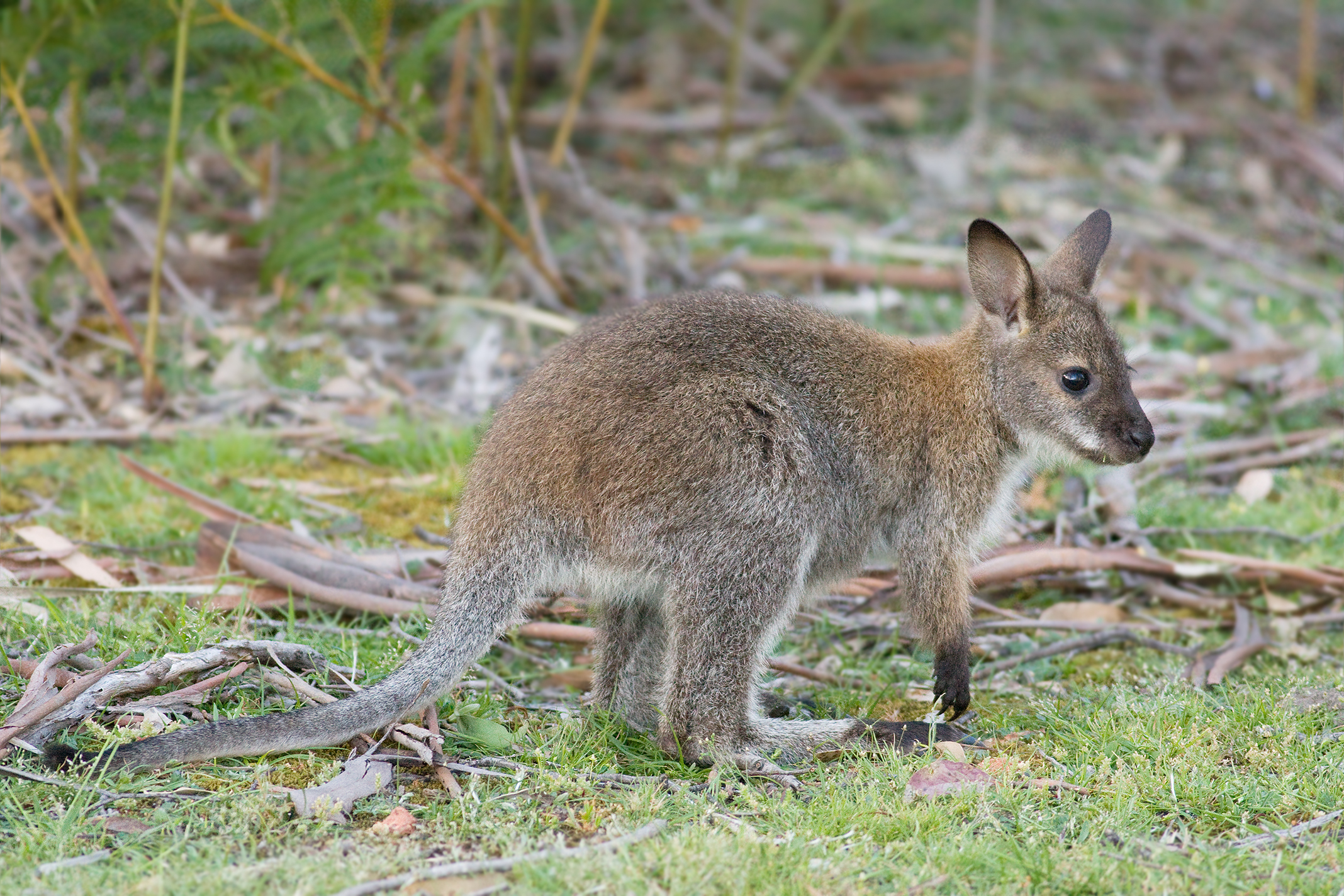 Bennett's Wallaby (Macropus rufogriseus rufogriseus) juvenile, Maria Island, Tasmania, Australia